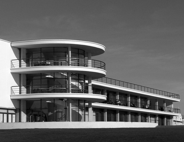 The De La Warr Pavilion, newly refurbished 2005.